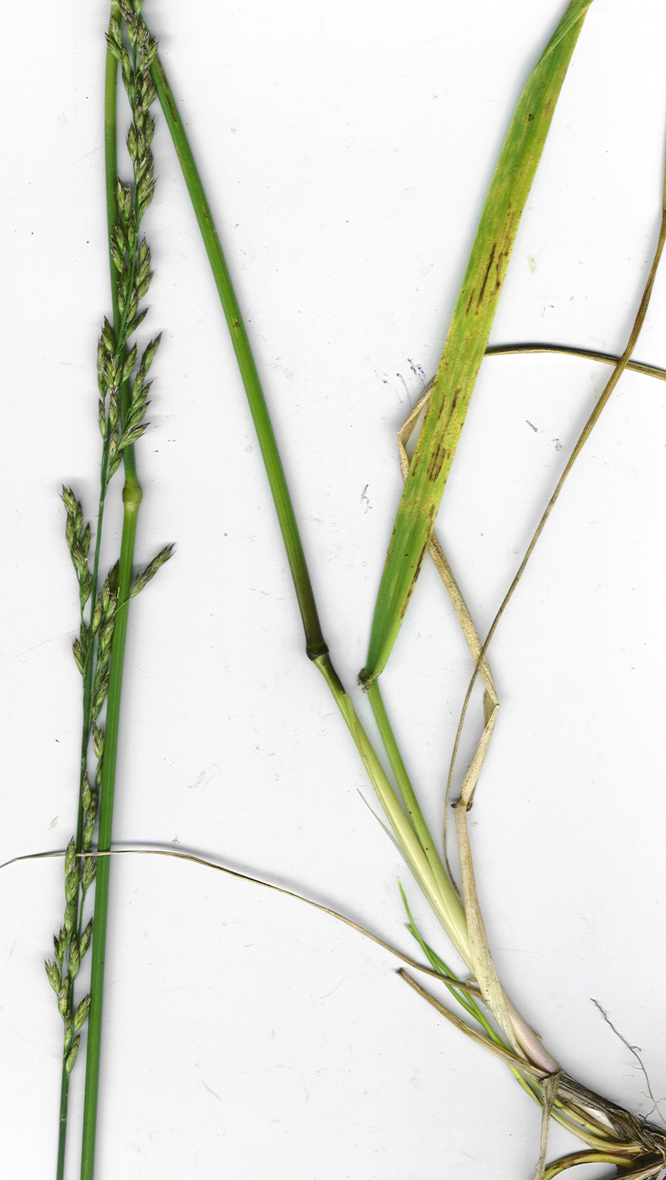 Festuca arundinacea (plant). Location: Maui, Auwahi